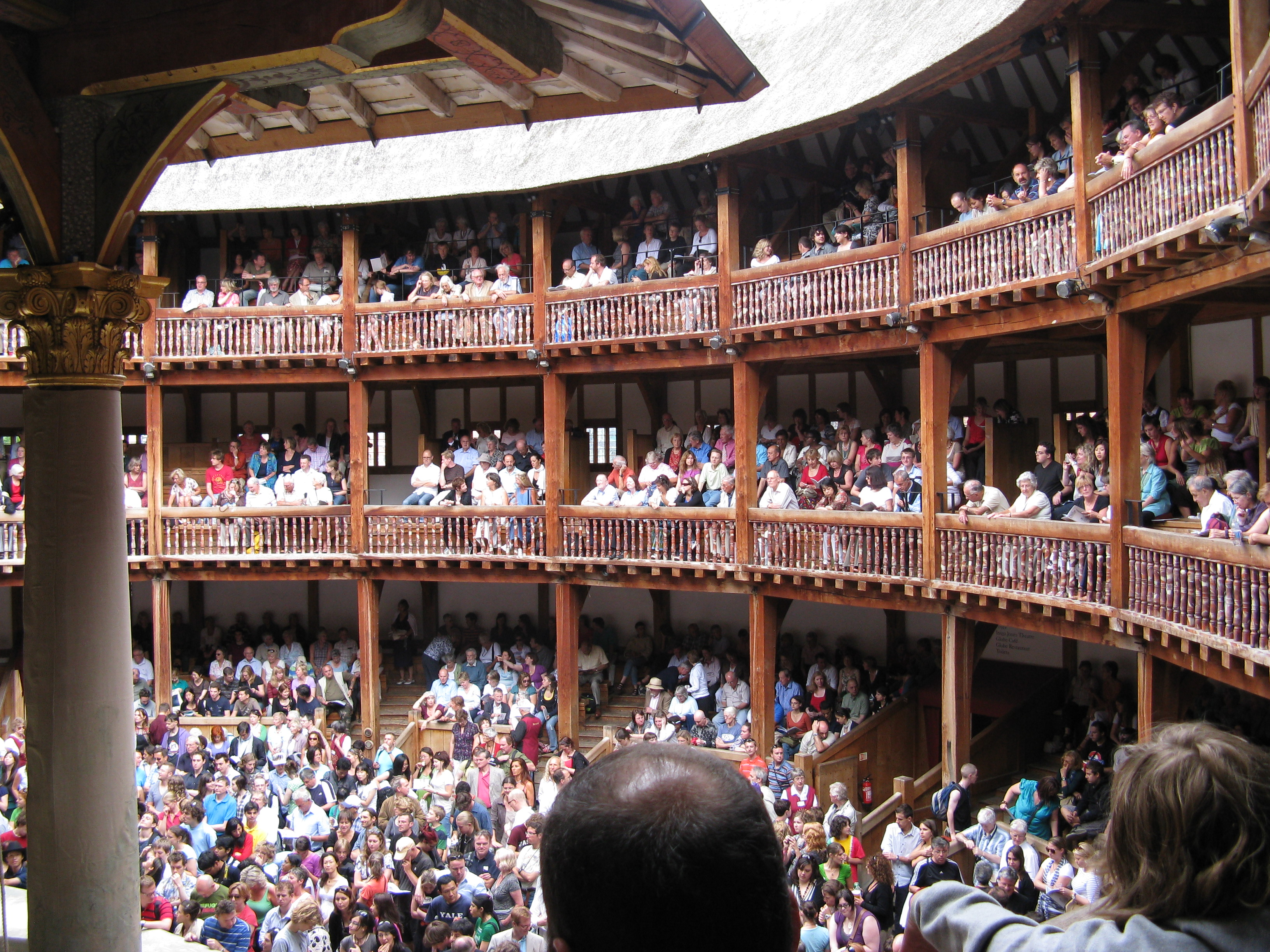 The audience at The Globe before the beginning of the play ("Troilus and Cressida").